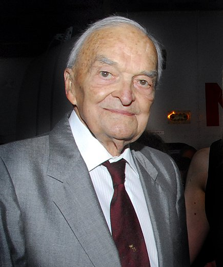 Walter Haeussermann at the 2008 U.S. Space and Rocket Center annual gala.